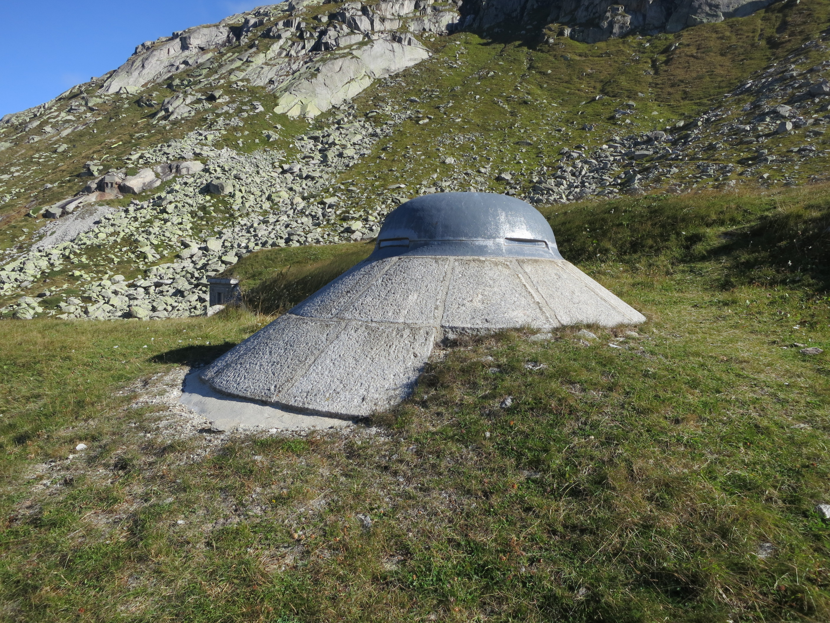 Fort Hospiz, Airolo, Schweiz